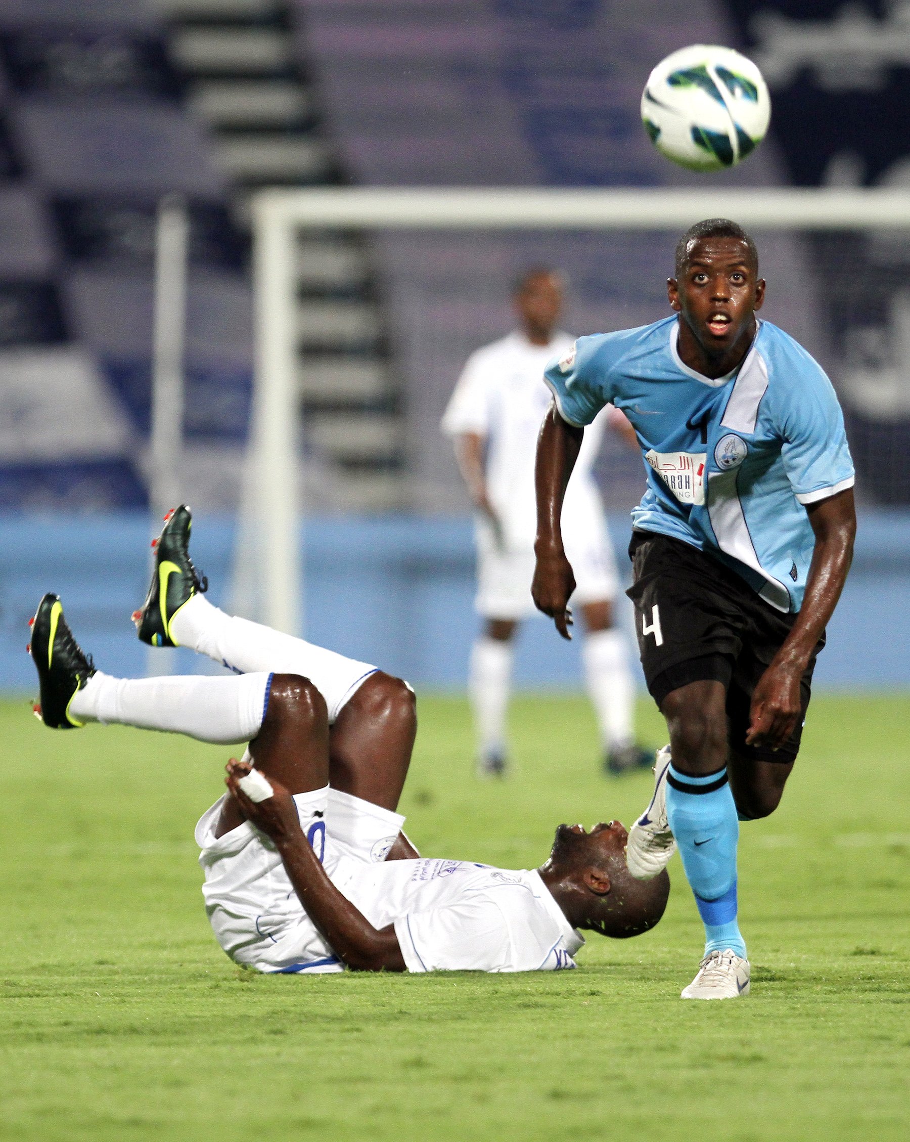 Al Wakrah's Johar Al Kaabi, right, runs with the ball during a Qatar Stars League match. Picture by Vinod Divakaran